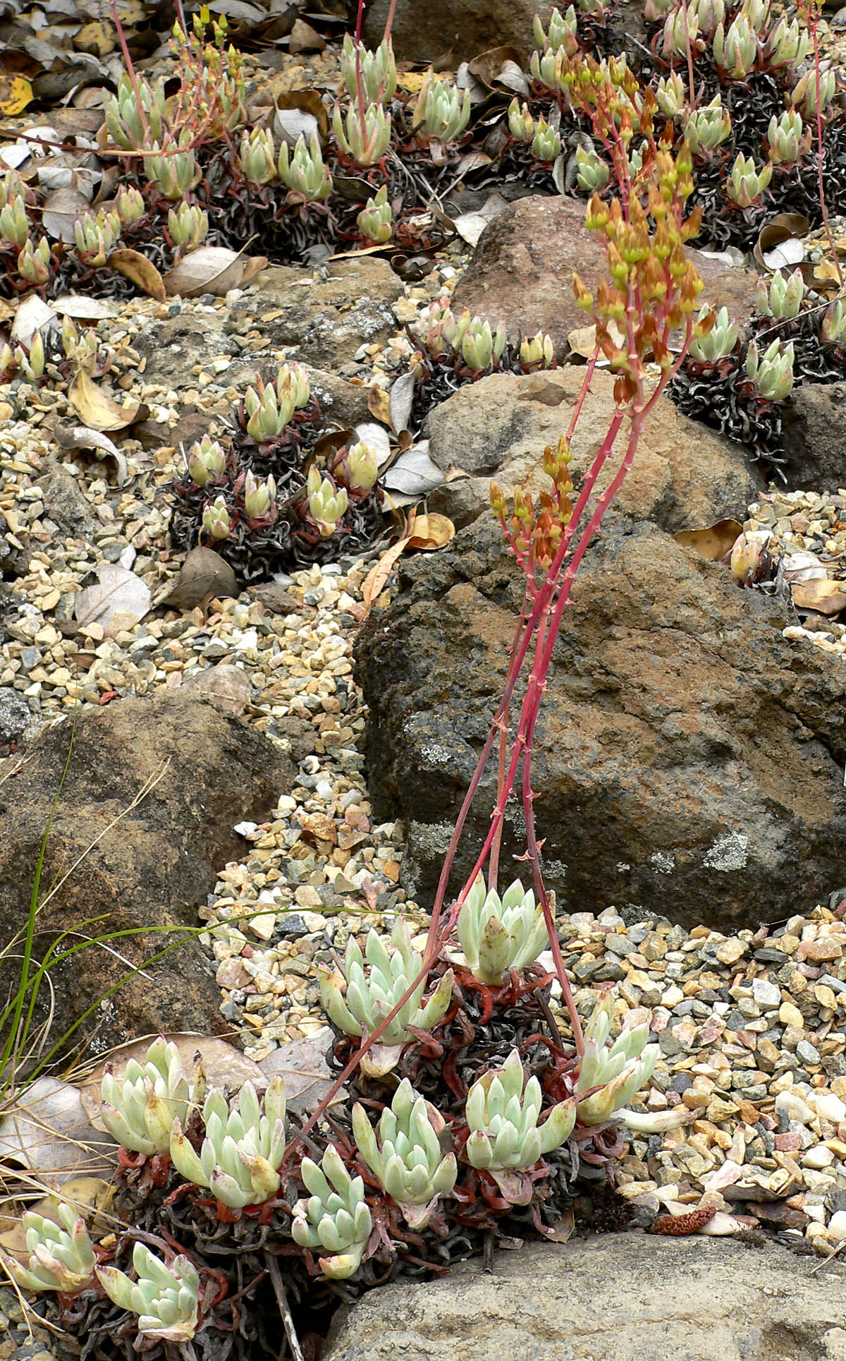 Photo of Dudleya caespitosa at the Regional Parks Botanic Garden